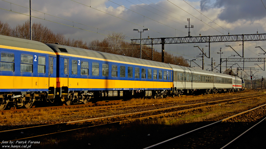 Heroes Rail Rent coaches rented by Koleje Śląskie